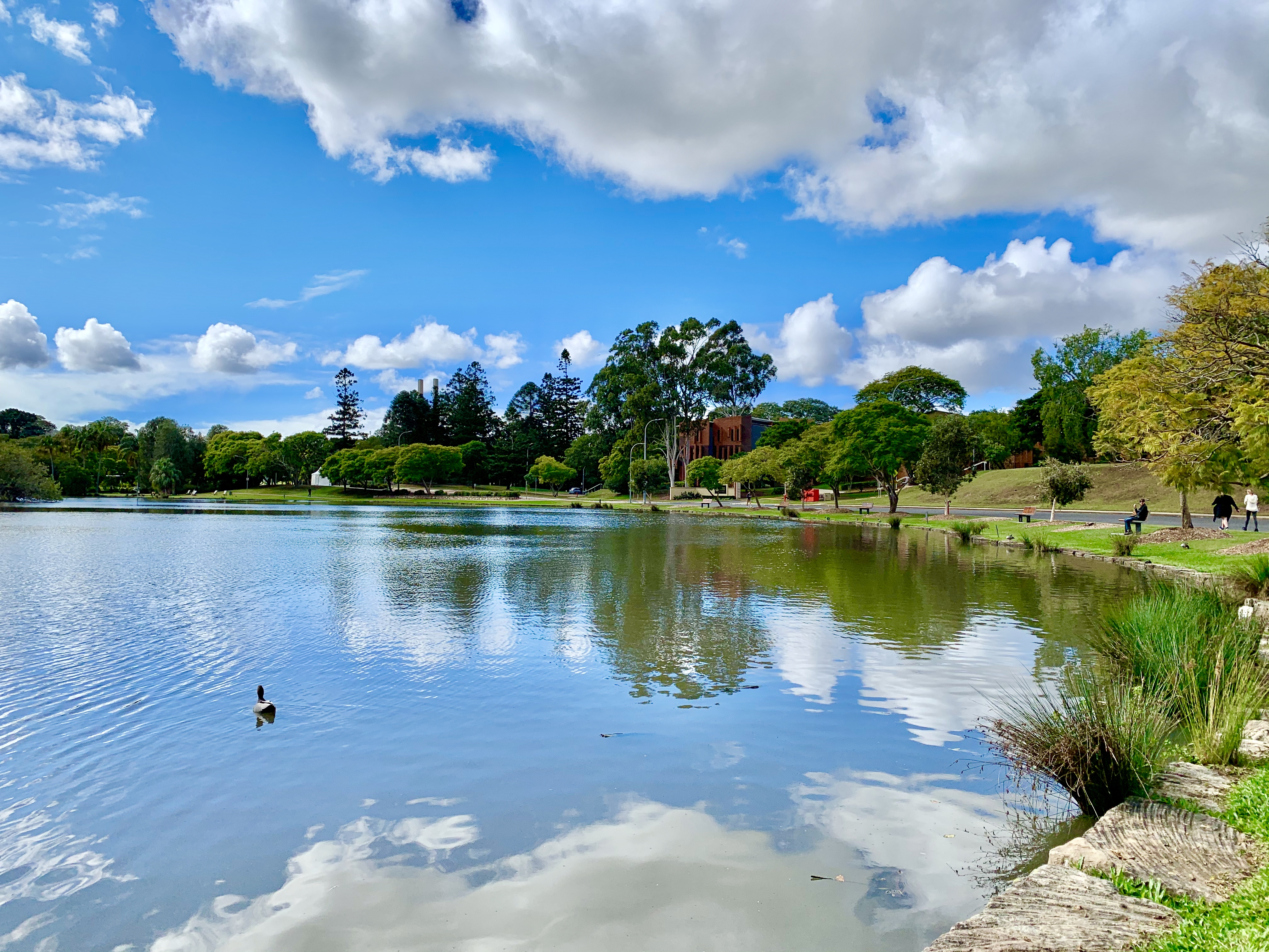 Lake at the University of Queensland, St Lucia Campus